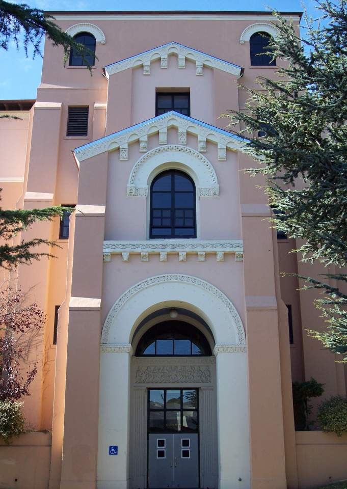 Balboa High School (San Francisco) : library building entrance